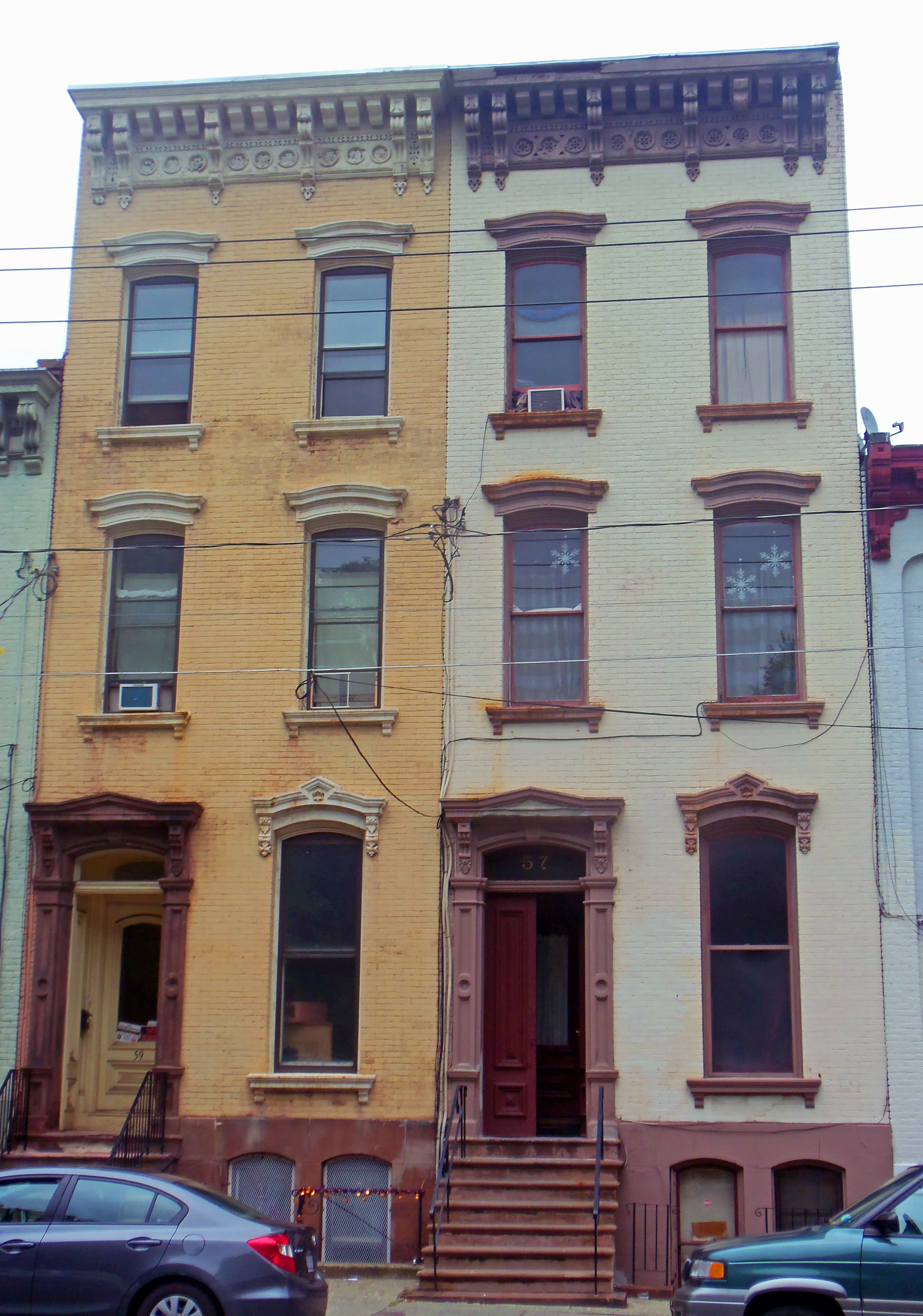 Rowhouses at 57–59 Ten Broeck Street, contributing properties to the Arbor Hill Historic District in Albany, NY, USA